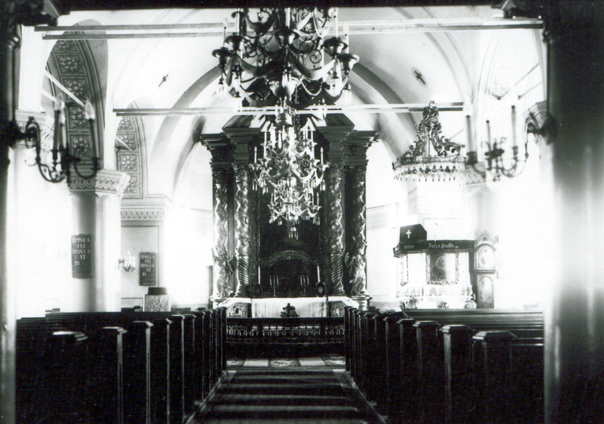 Nave of St. Michael Lutheran Church in Moscow